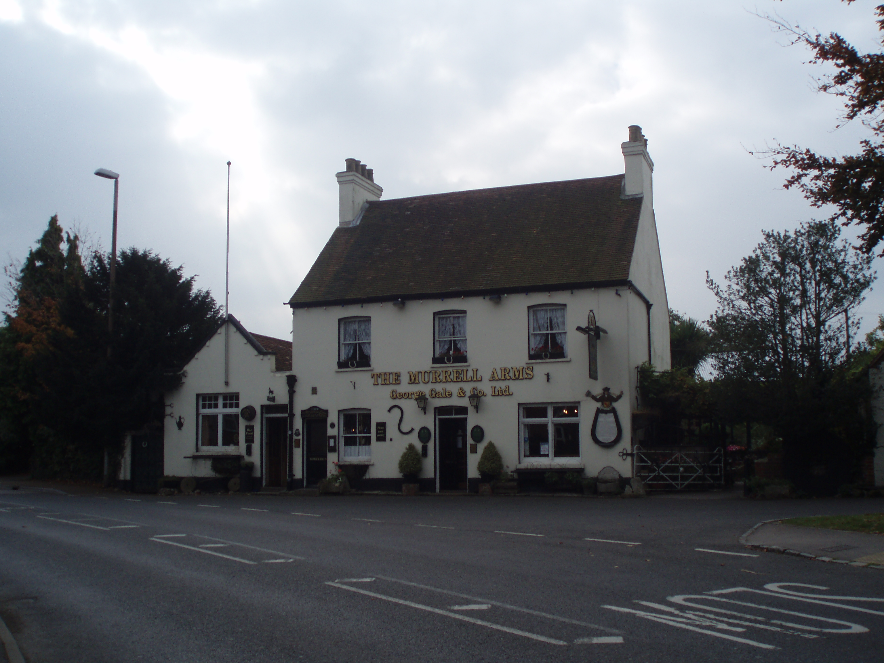 The Murrell Arms Barnham Photo taken 6th Oct 2007 by M.Eyre